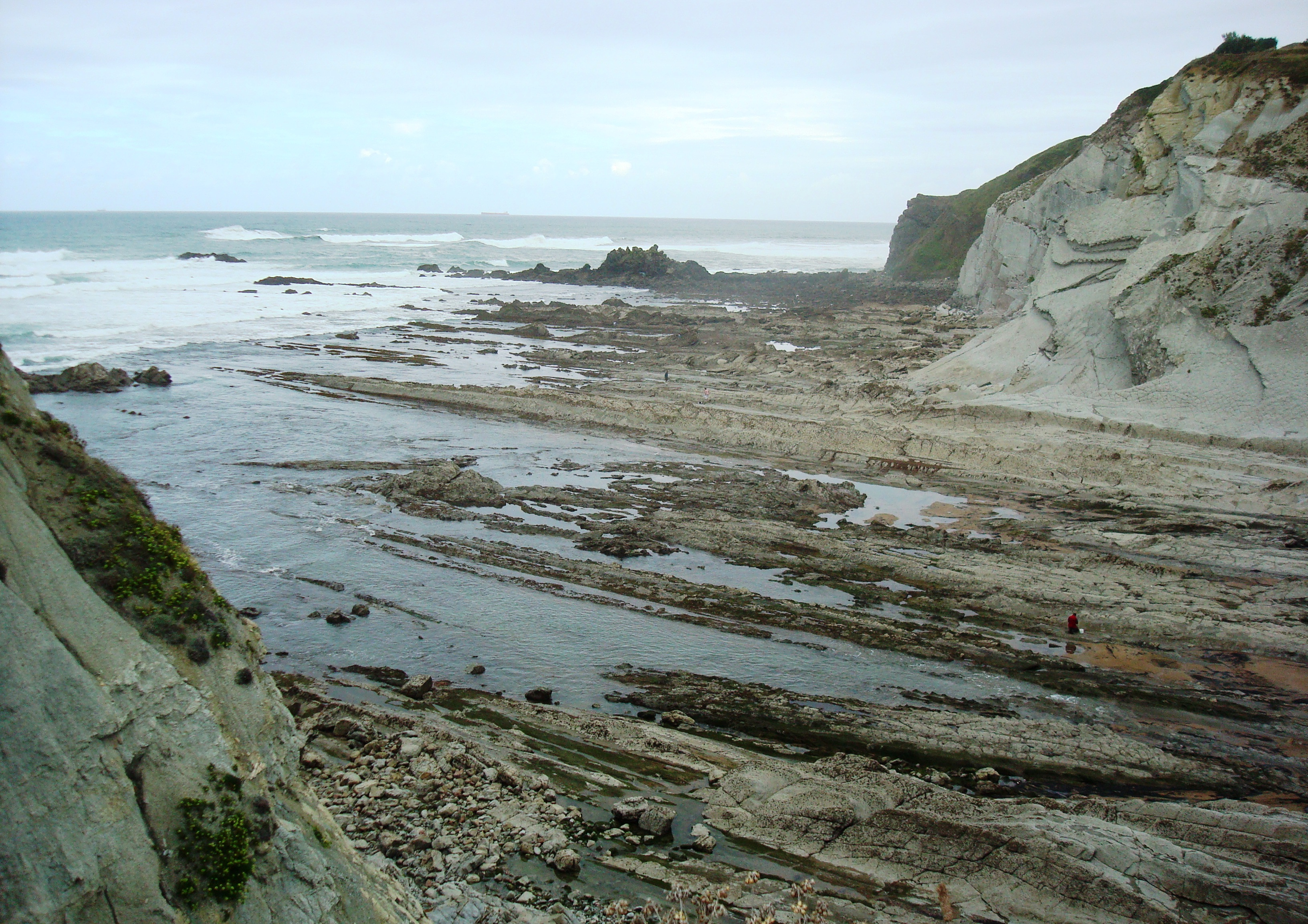 Rock reefs in Sopela, Basque Country.